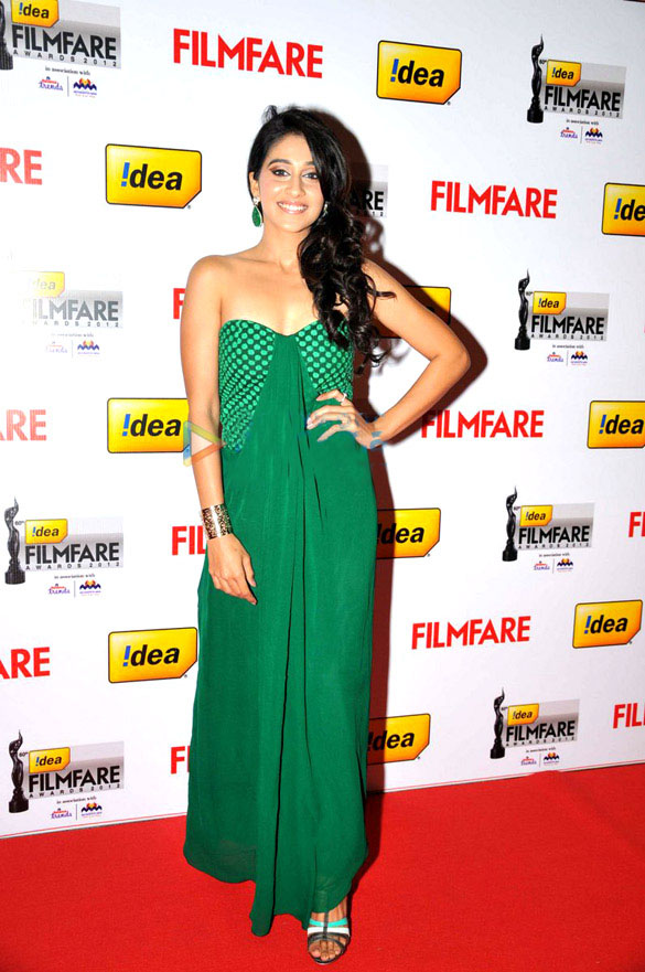 Regina Cassandra at 60th South Filmfare Awards 2013